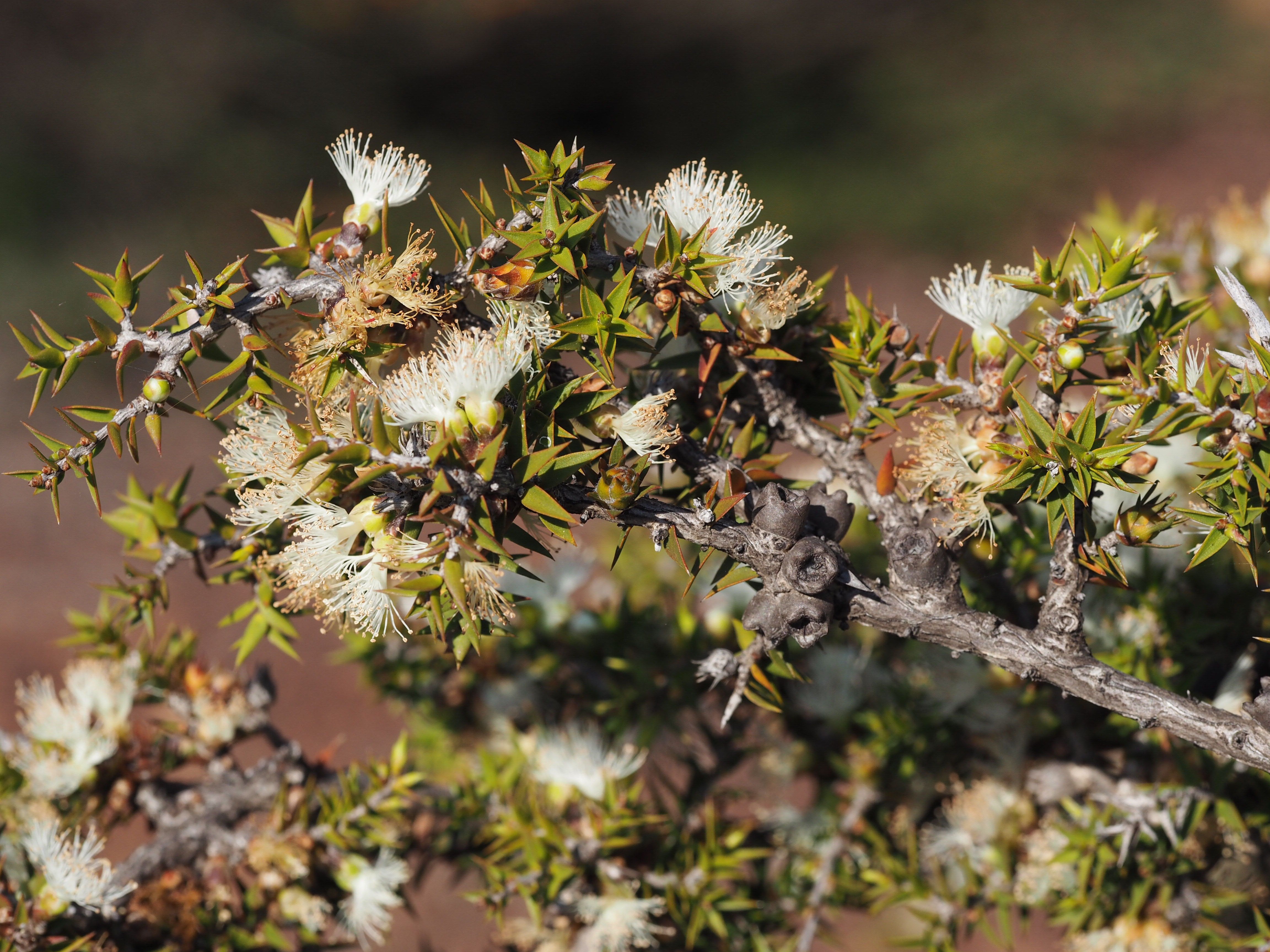 Melaleuca marginata growing 10 km E Ravensthorpe